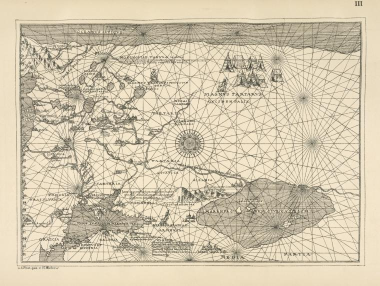 A map of Russia by Battist Agneze, 1525. Text p.3